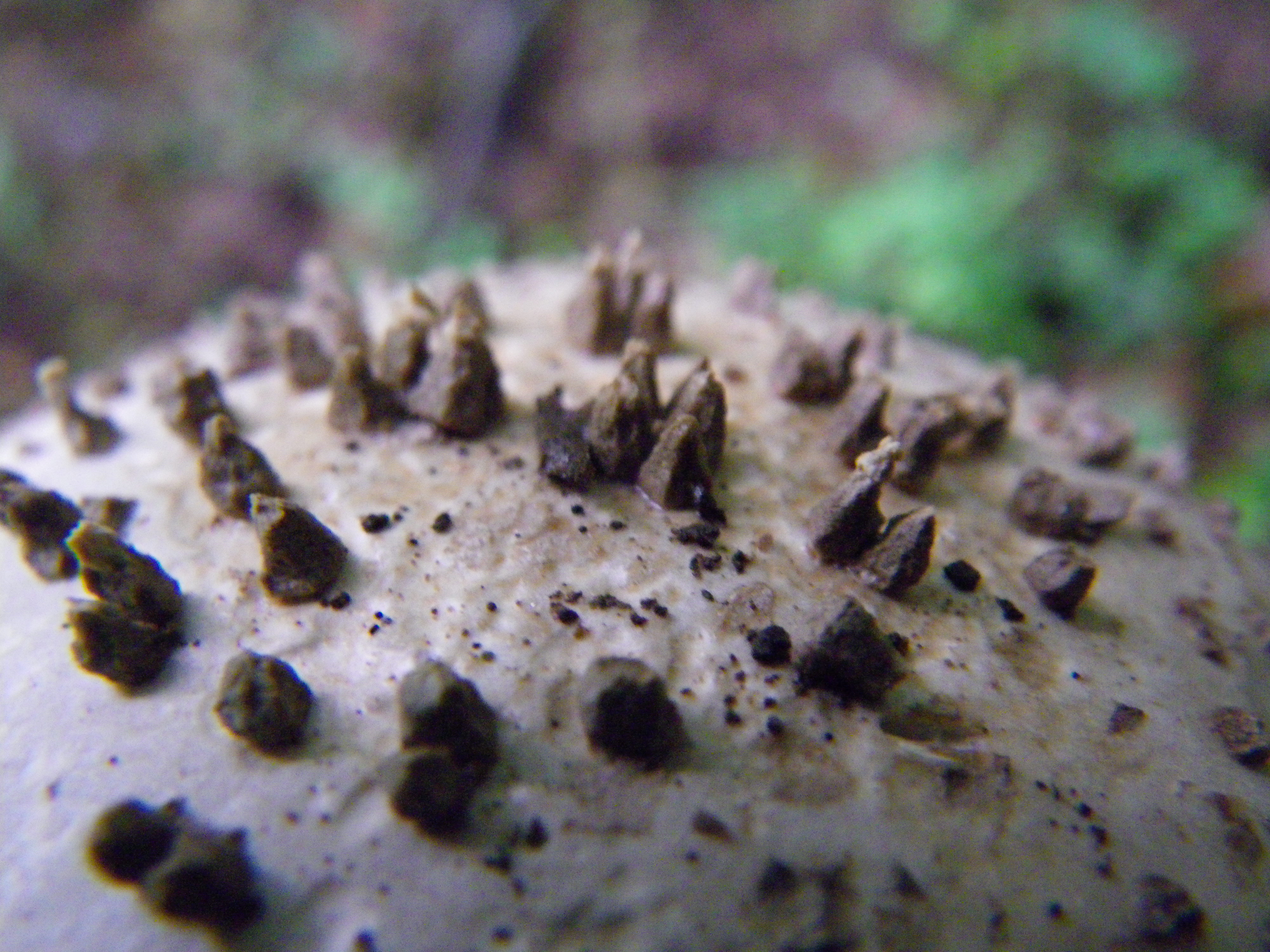 The mushroom Amanita onusta (Howe) Sacc. Specimen photographed in Kent Park, Delaware County, Pennsylvania, USA. For more information about this, see the observation page at Mushroom Observer.